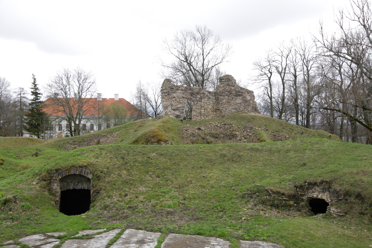 Lihula, Lääne County, Estonia